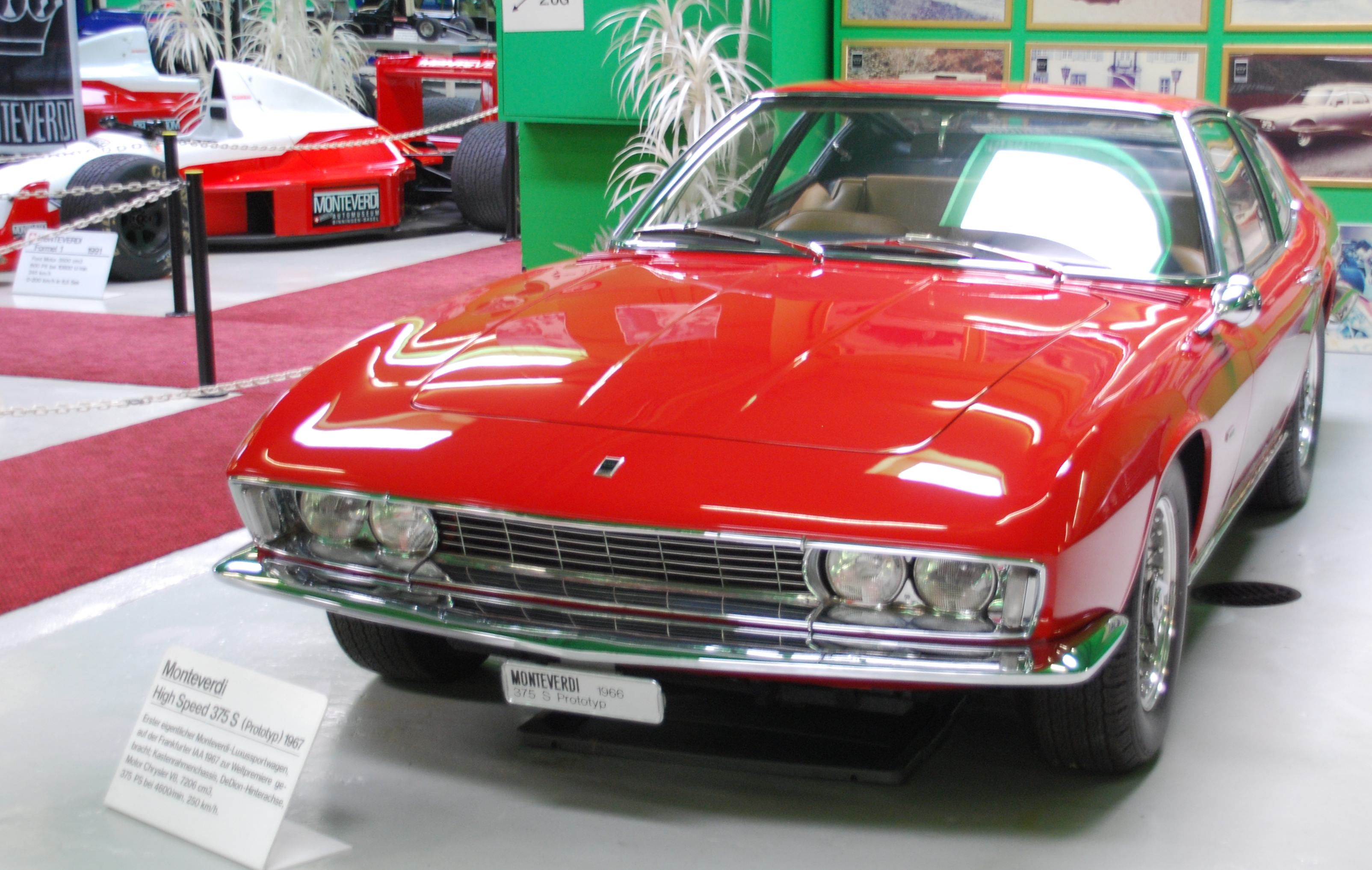 Monteverdi High Speed 375 S with Frua Body (prototype)